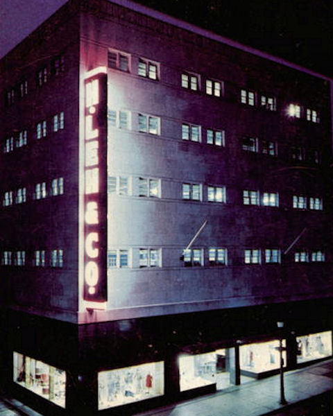 Photograph taken by my father of H. Leh & Company, Allentown Pennsylvania. This shows the "Expanded" Leh's Department Store, which was rebuilt in 1927 with the acquisition of the Tallman's Cafe building at 632 Hamilton. The previous store was completely renovated inside with the 40,000 square foot addition, along with the new storefront illustrated in this photograph.